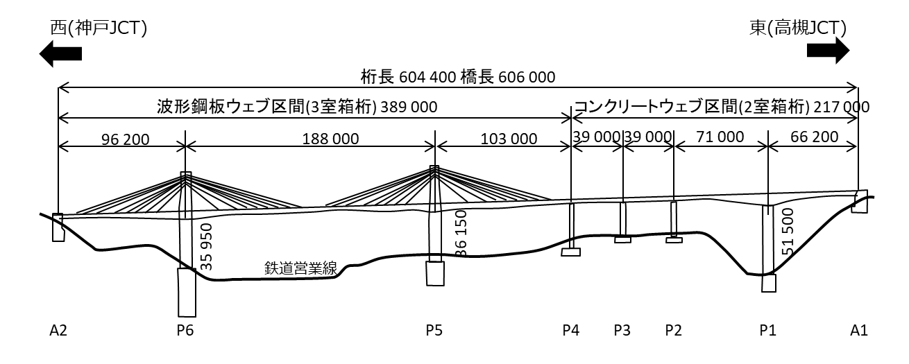 Skelton diagram of Ikuno Ohashi bridge, Kita, Kobe, Hyogo, Japan on Shin-Meishin expressway with Japanese description.